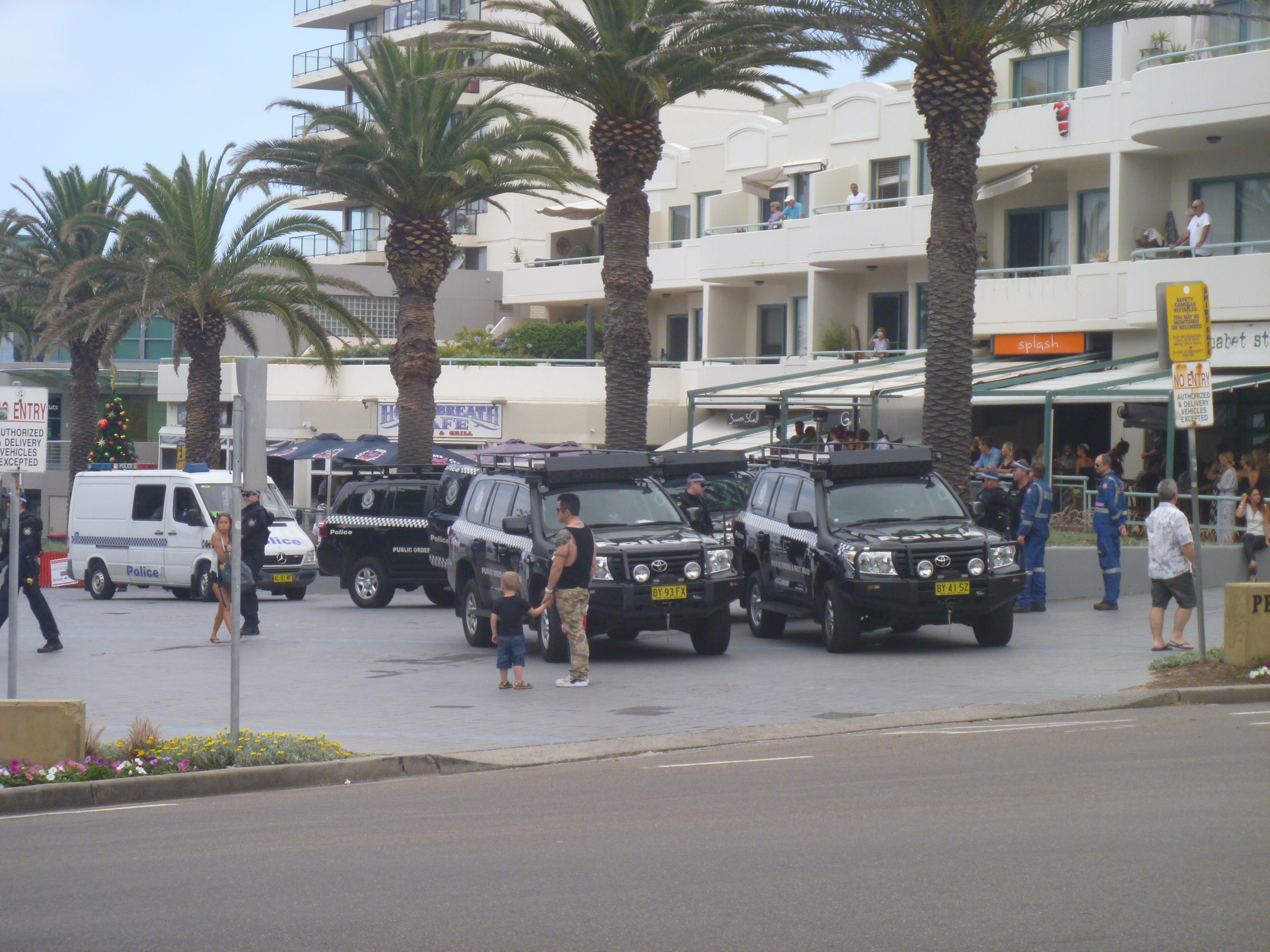 Police and vehicles at Peryman Place, Cronulla, looking south-east